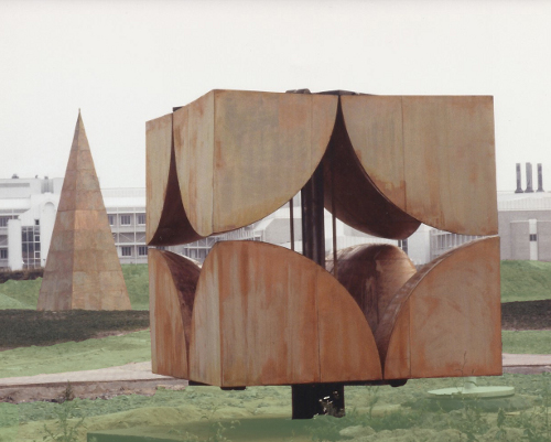 Sculptures for the Flight Safety and Meteorological Services School Langen/Hessen, Germany, completed 1987-1989